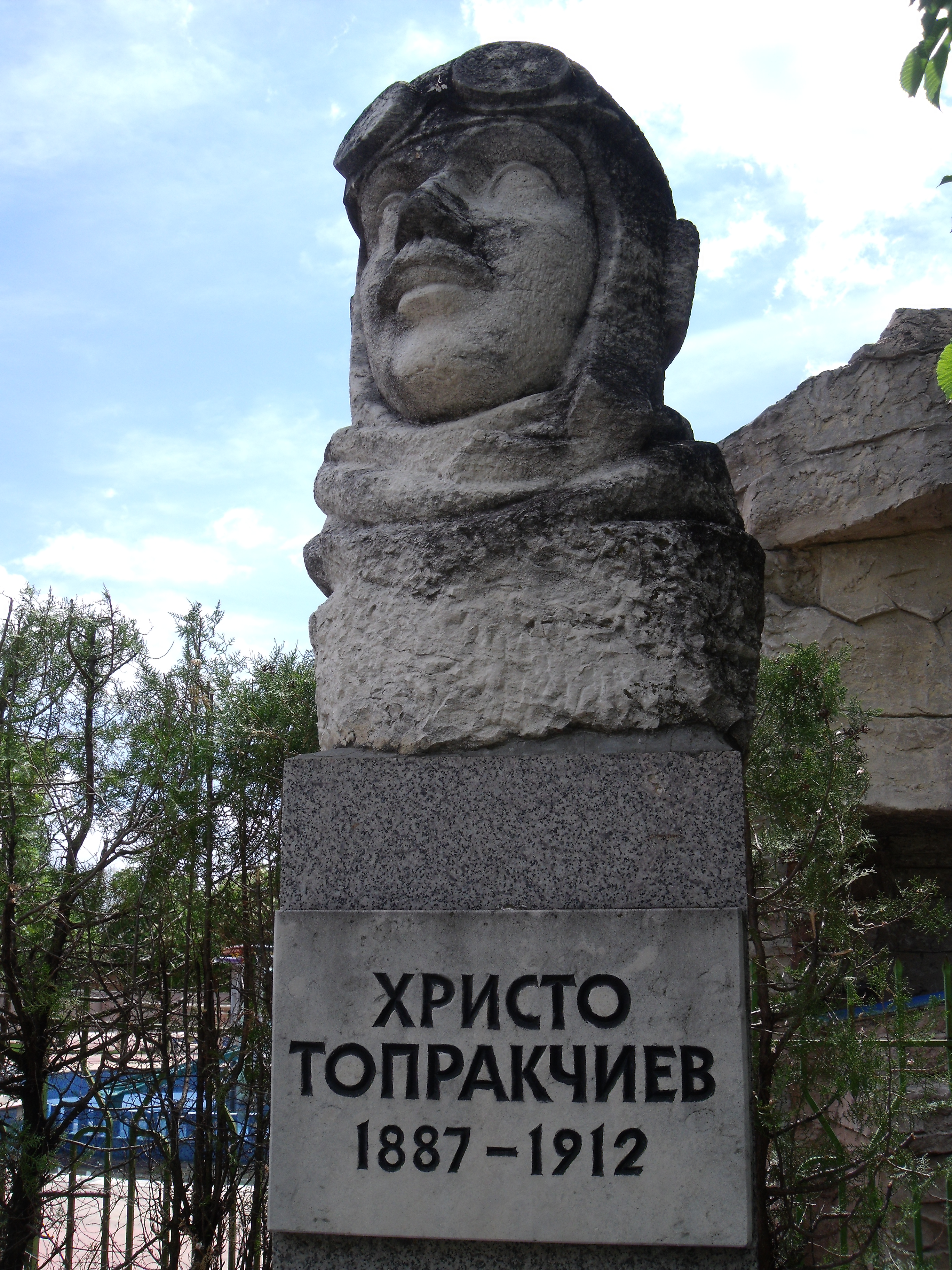 The monument of the Bulgarian pilot Hristo Toprakchiev in the Municipal Garden of Sliven, Bulgaria